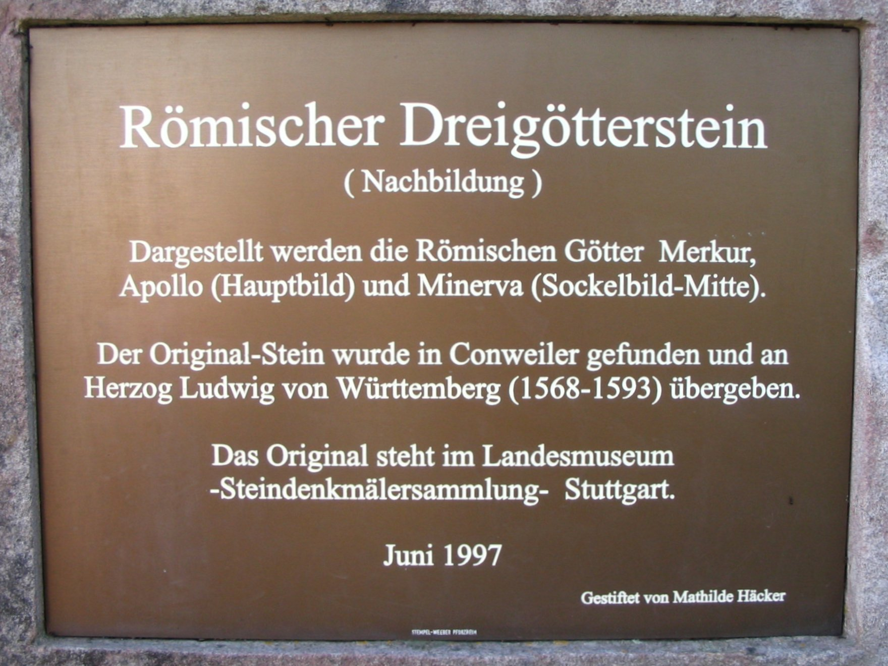 Information panel at a reconstruction of the Römischer Dreigötterstein (Roman three-gods-stone) in Straubenhardt, Germany